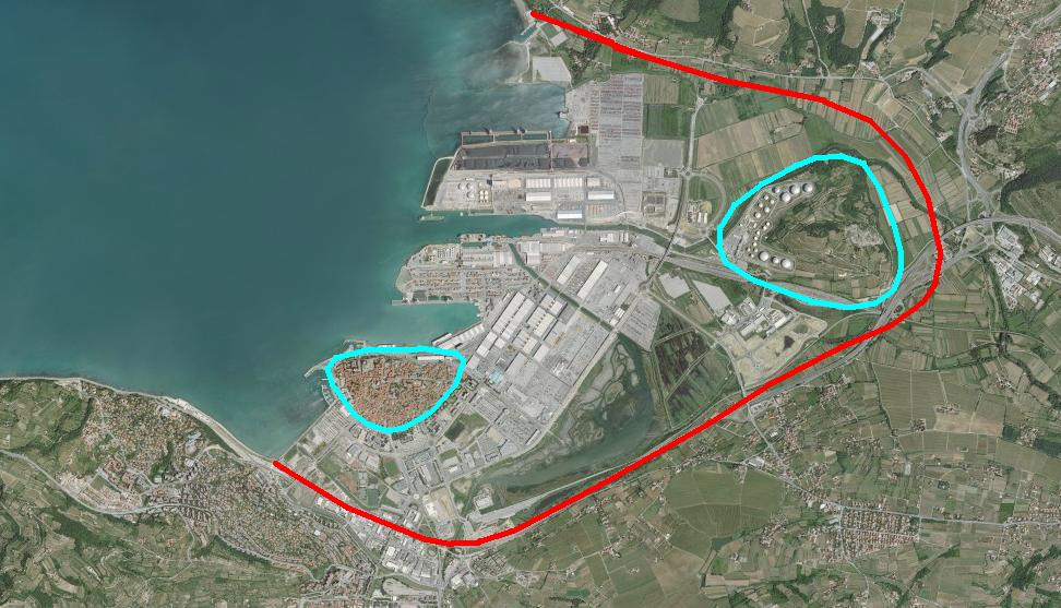 image of island of koper and sermin